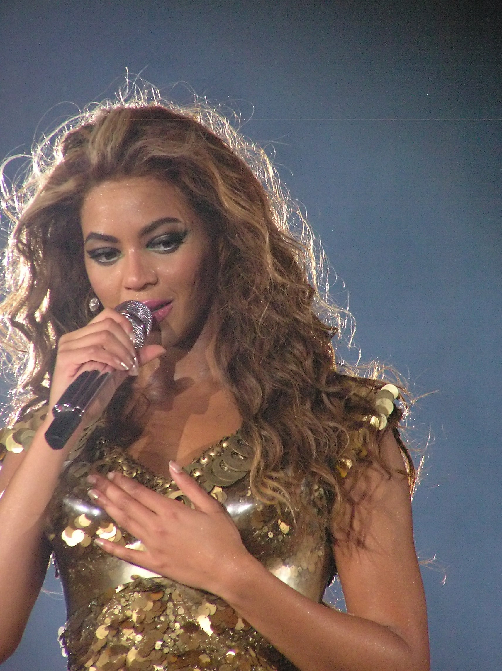 Beyoncé Newcastle 2009